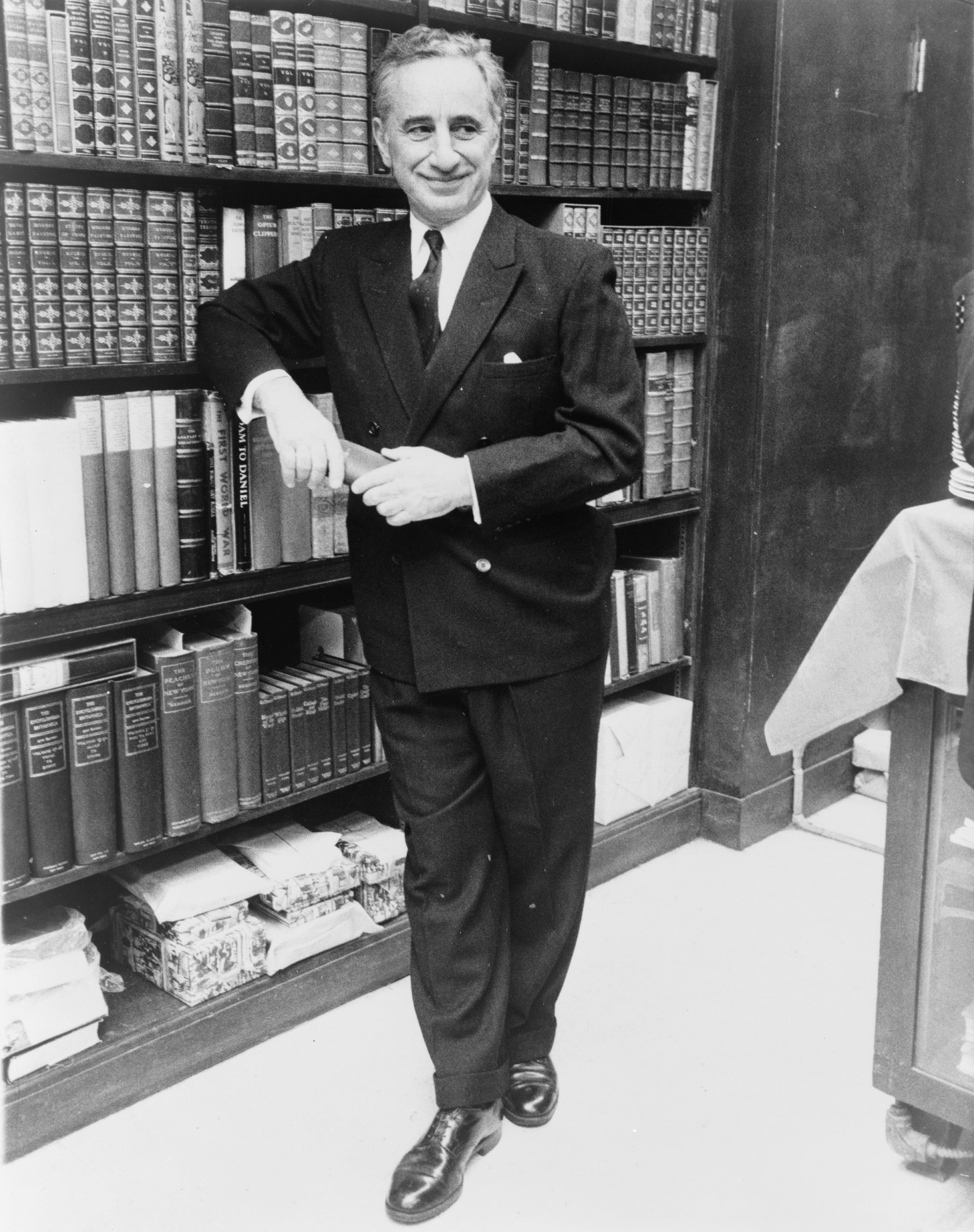 Elia Kazan, full-length portrait, standing before bookshelves at Brentano's book store / World Journal Tribune photo by James Kavallines.